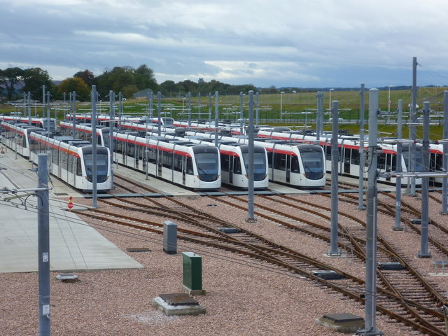 Edinburgh trams at Gogar